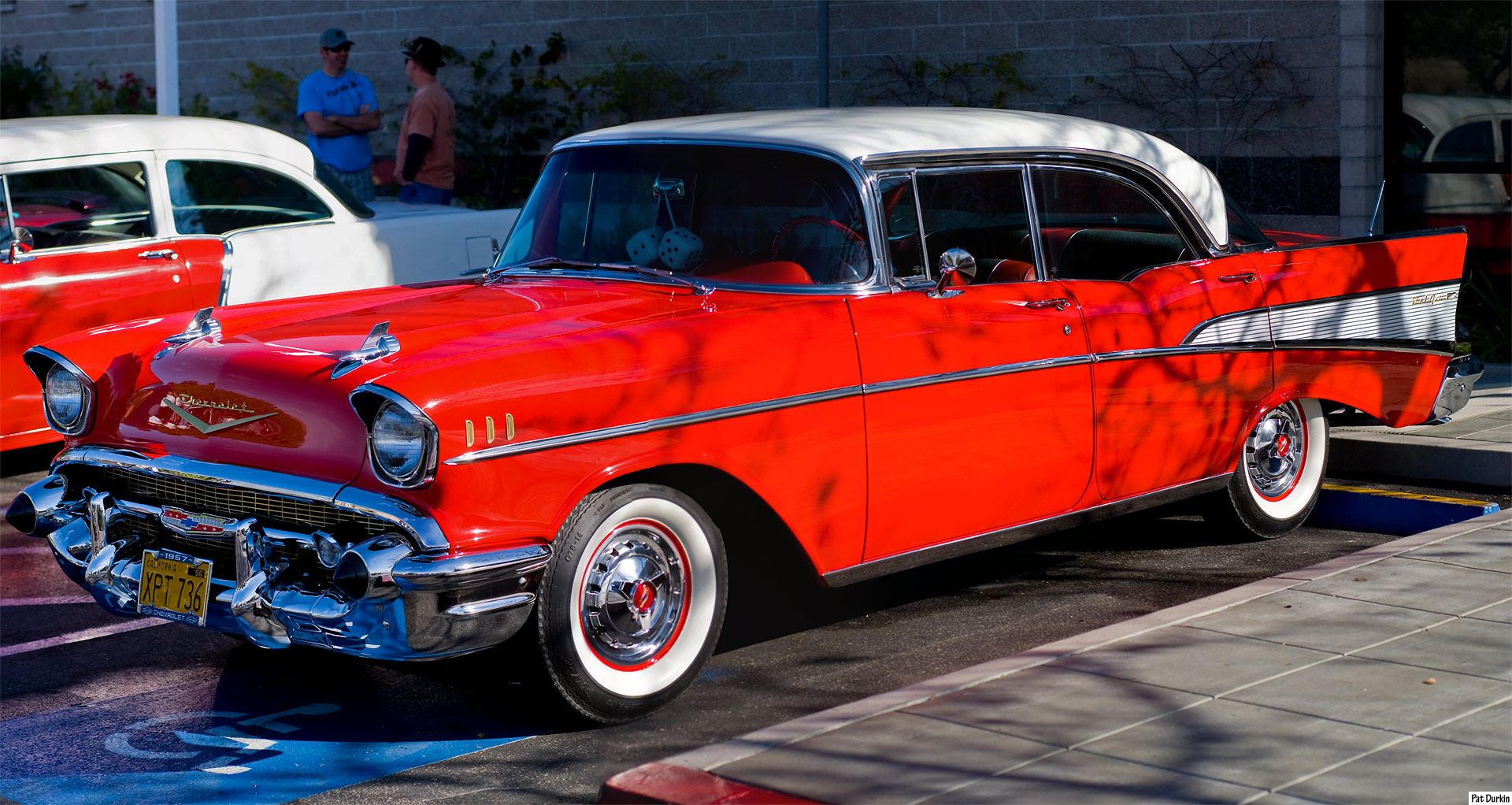 1957 Chevrolet Bel Air Sport Sedan - front left